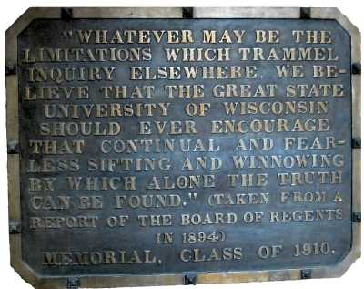 University of Wisconsin "Sifting and Winnowing" plaque Located on Bascom Hall, University of WIsconsin Photographed July, 2002 by Daniel P. B. Smith. Copyright ©2002 Daniel P. B. Smith. Licensed under the terms of the Wikipedia Copyright.